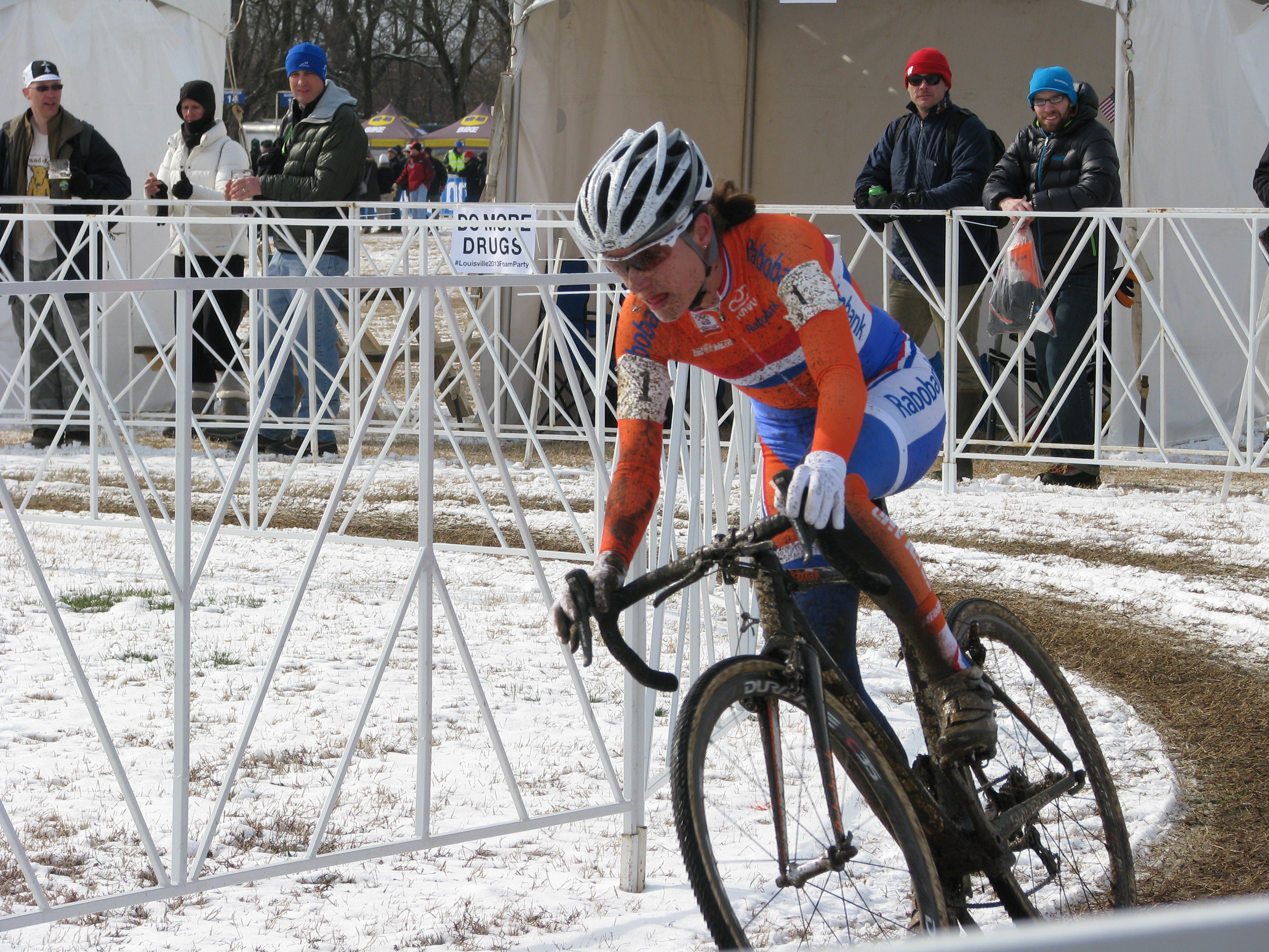 Marianne Vos at the World Cyclocross Championships 2013, Louisville, KY (2/2/13)